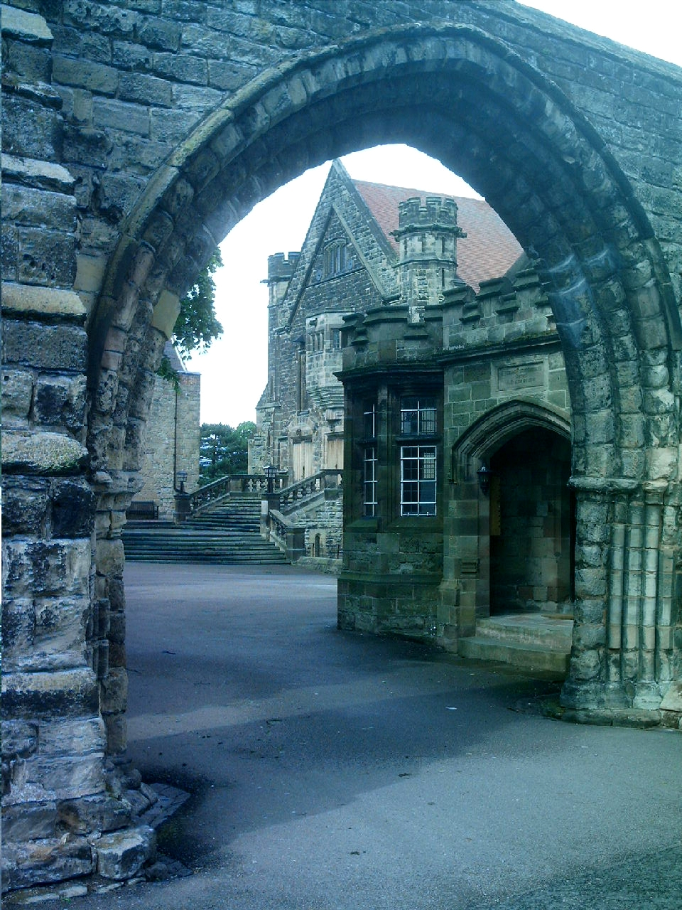 Repton School through The Arch